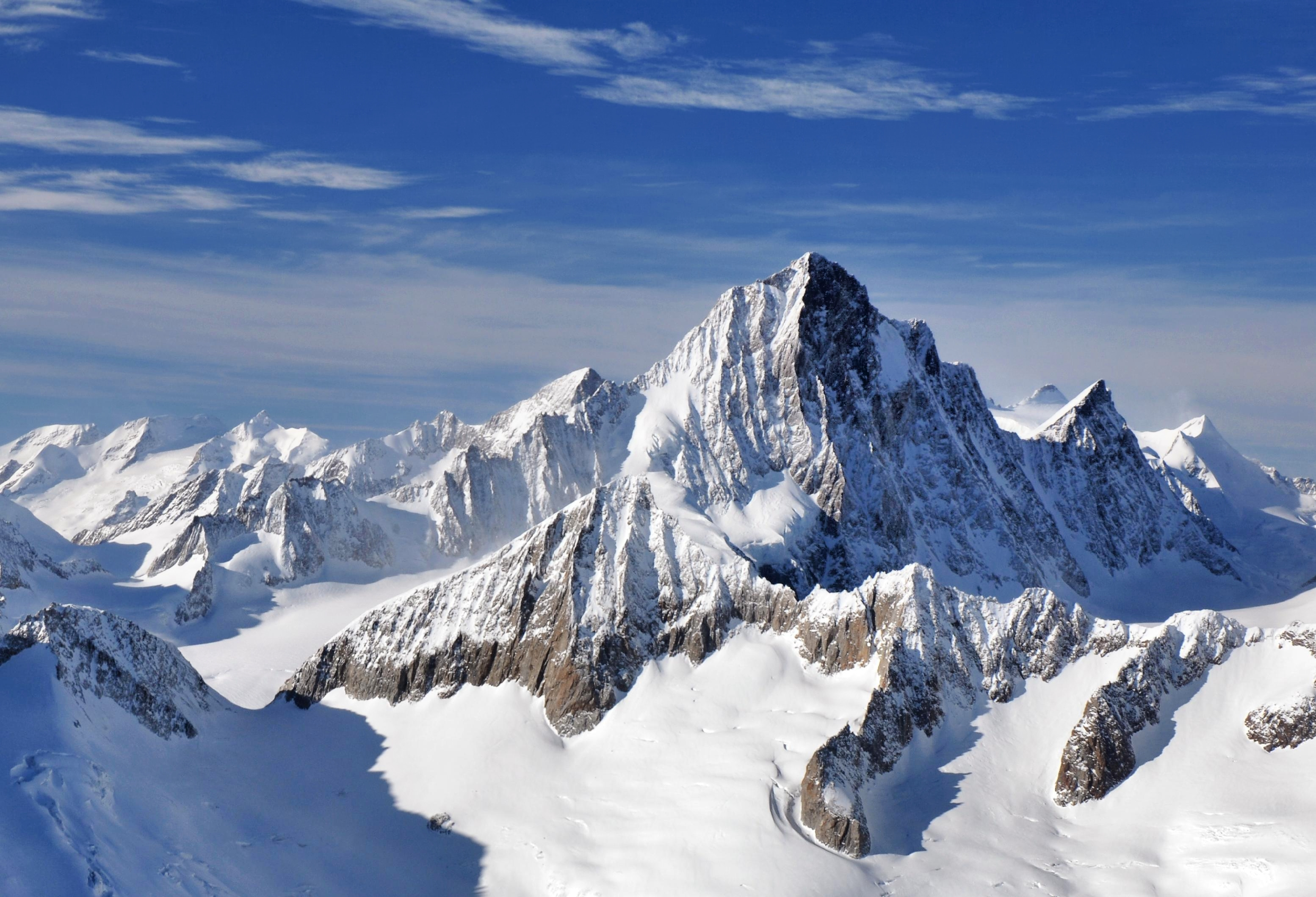 Aerial view on the Finsteraarhorn (center, the highest point) and surrounding mounts. From left to right, the summits are the Grosses Grünhorn (4 044 m, left and behind Finsteraarhorn), the Oberaarhorn (3 630 m, left and foreground), the Finsteraarhorn (4 275m, the highest point), the Mönch (4 107 m, right, in the rear), the Agassizhorn (3 946 m, right), the Eiger (3 970 m, in the rear, extreme right). On the left the valley of the Fieschergletscher, on the right the valley of the Finsteraargletscher, on the front the valley of the Oberaargletscher. Bernese Alps.